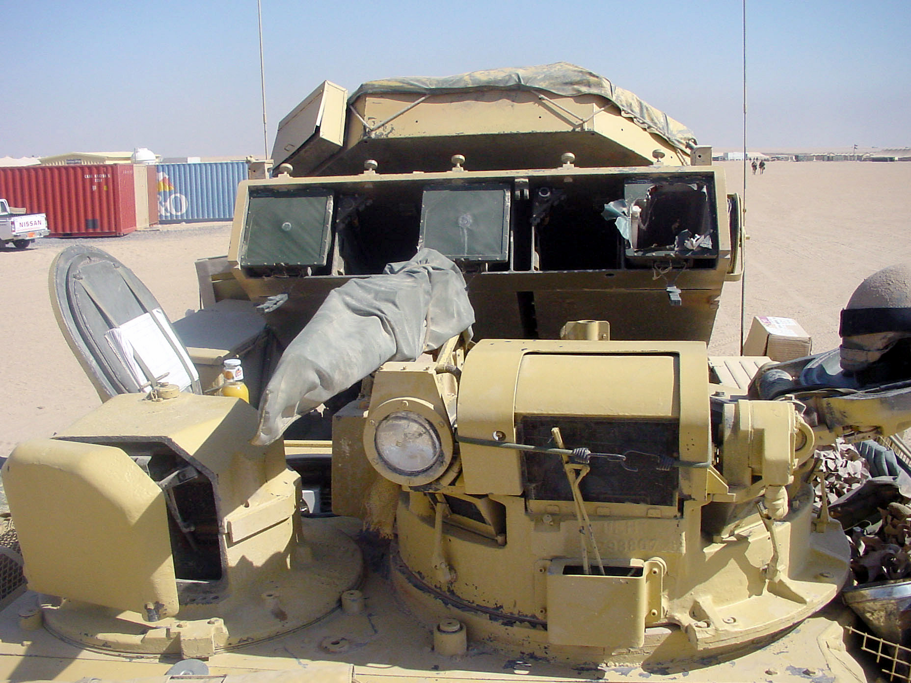 A close up view of a British Army (United Kingdom) Alvis Striker anti-tank guided weapons vehicle (FV102), at Camp New Jersey, Kuwait, during Operation ENDURING FREEDOM. The launcher box is raised and three of the five Anti-Tank Guided Weapon (ATGW) Swingfire missiles are have been launched.